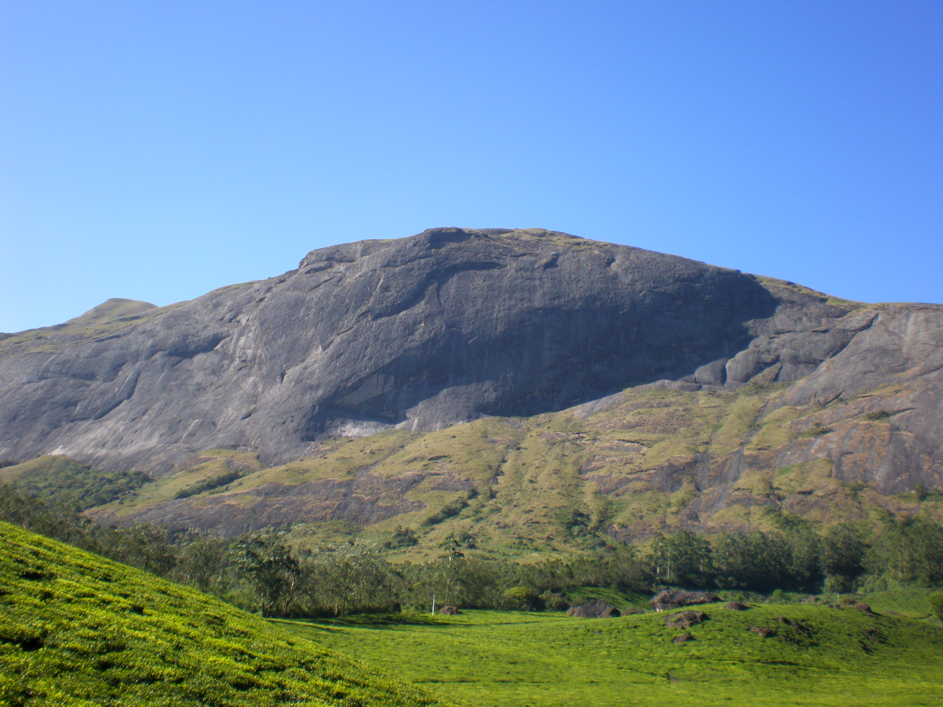 Picture of Naikolli Mala mountain from eravikulam national park with olympus fe-230 digital still camera